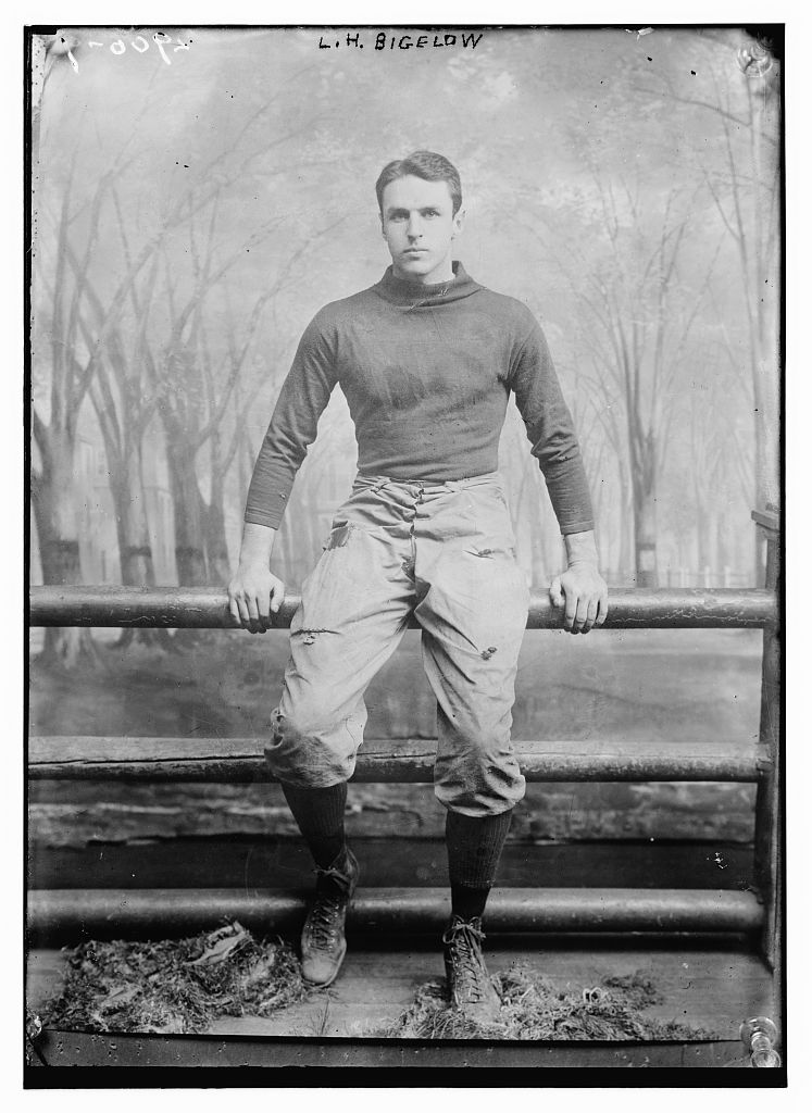 Lucius Horatio "Ray" Bigelow, III was an All-American football player. He played right guard for Yale University from 1905-1907. He was selected as an All-American in both 1906 and 1907 and served as Yale's head football coach in 1908. Bain News Service,, publisher. L.H. Bigelow between ca. 1910 and ca. 1915 1 negative : glass ; 5 x 7 in. or smaller. Notes: Title from unverified data provided by the Bain News Service on the negatives or caption cards. Forms part of: George Grantham Bain Collection (Library of Congress). Format: Glass negatives. Repository: Library of Congress, Prints and Photographs Division, Washington, D.C. 20540 USA, General information about the Bain Collection is available at Persistent URL: Call Number: LC-B2- 2906-9